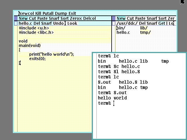 Plan 9 from Bell Labs, 640x480x8 colour mode, showing acme and drawterm.